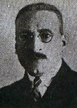 Former Iraqi Prime minister mmm